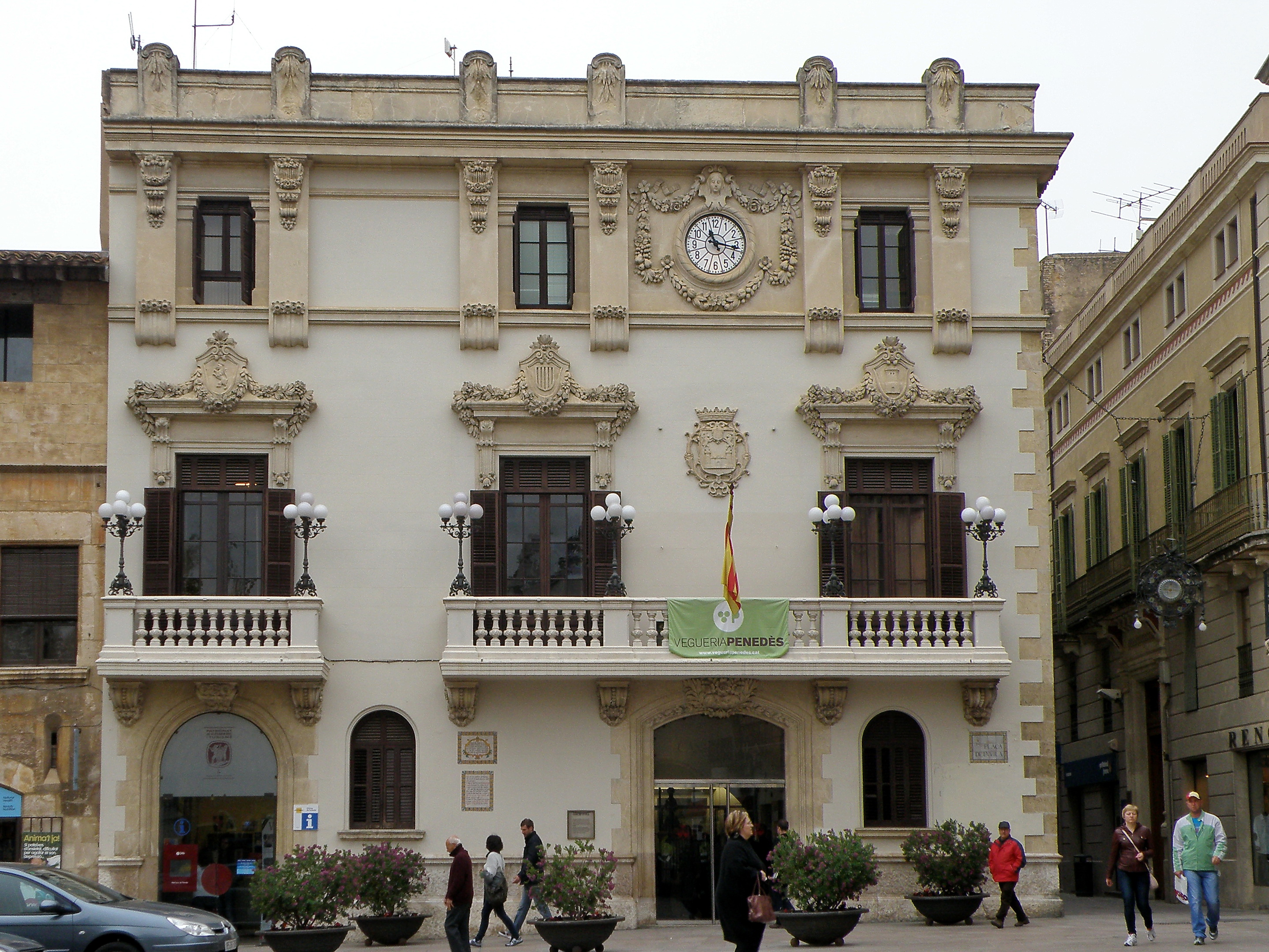 Townhall in Vilafranca del Penedès